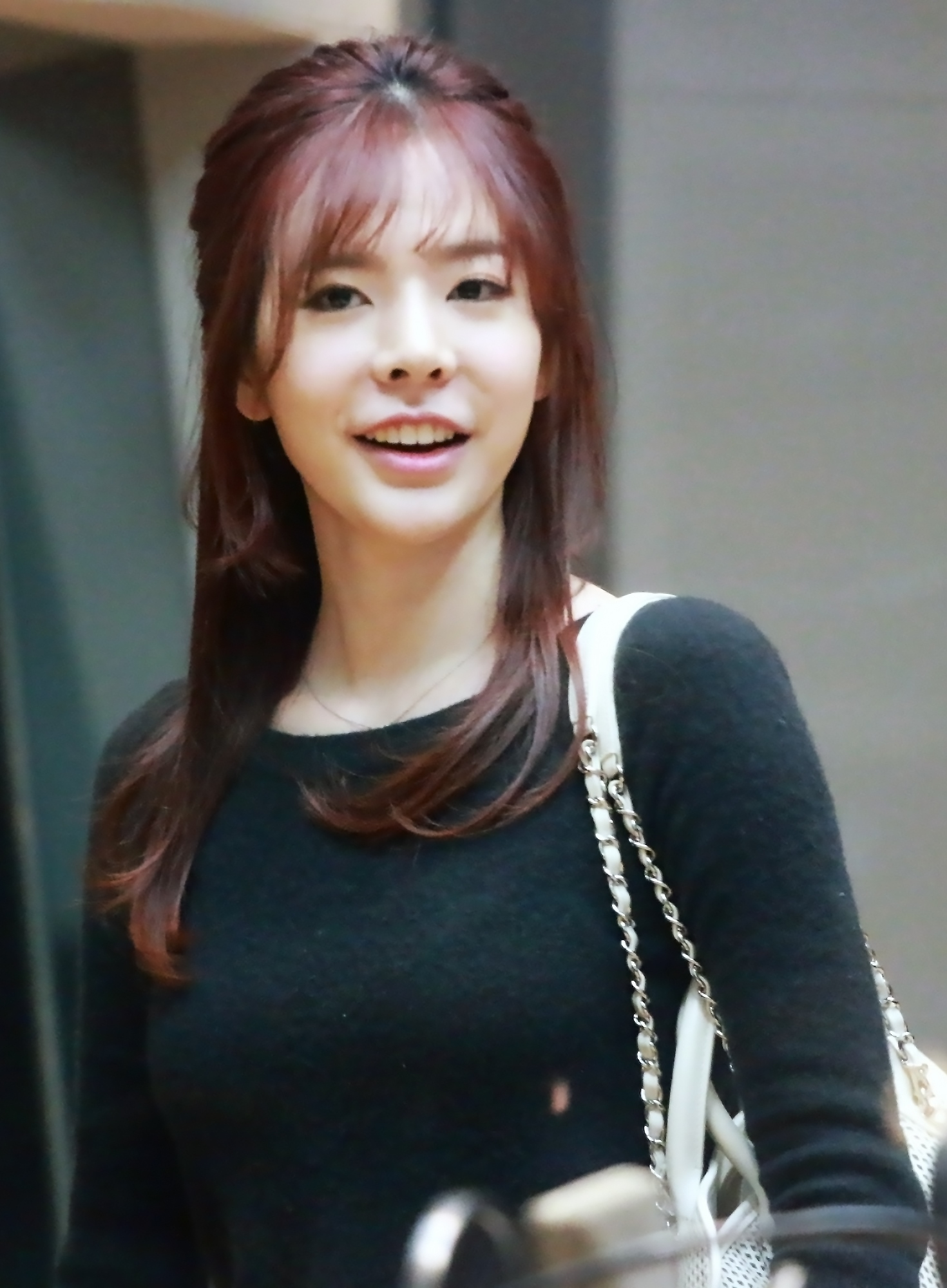 Sunny at Sunny's FM Date on June 4, 2015